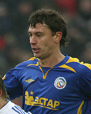 Pavel Mogilevsky in action for FC Rostov